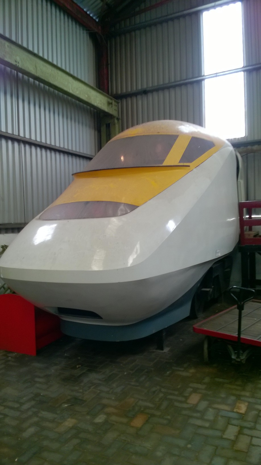 Mock up of cab of planned Class 93 electric locomotive